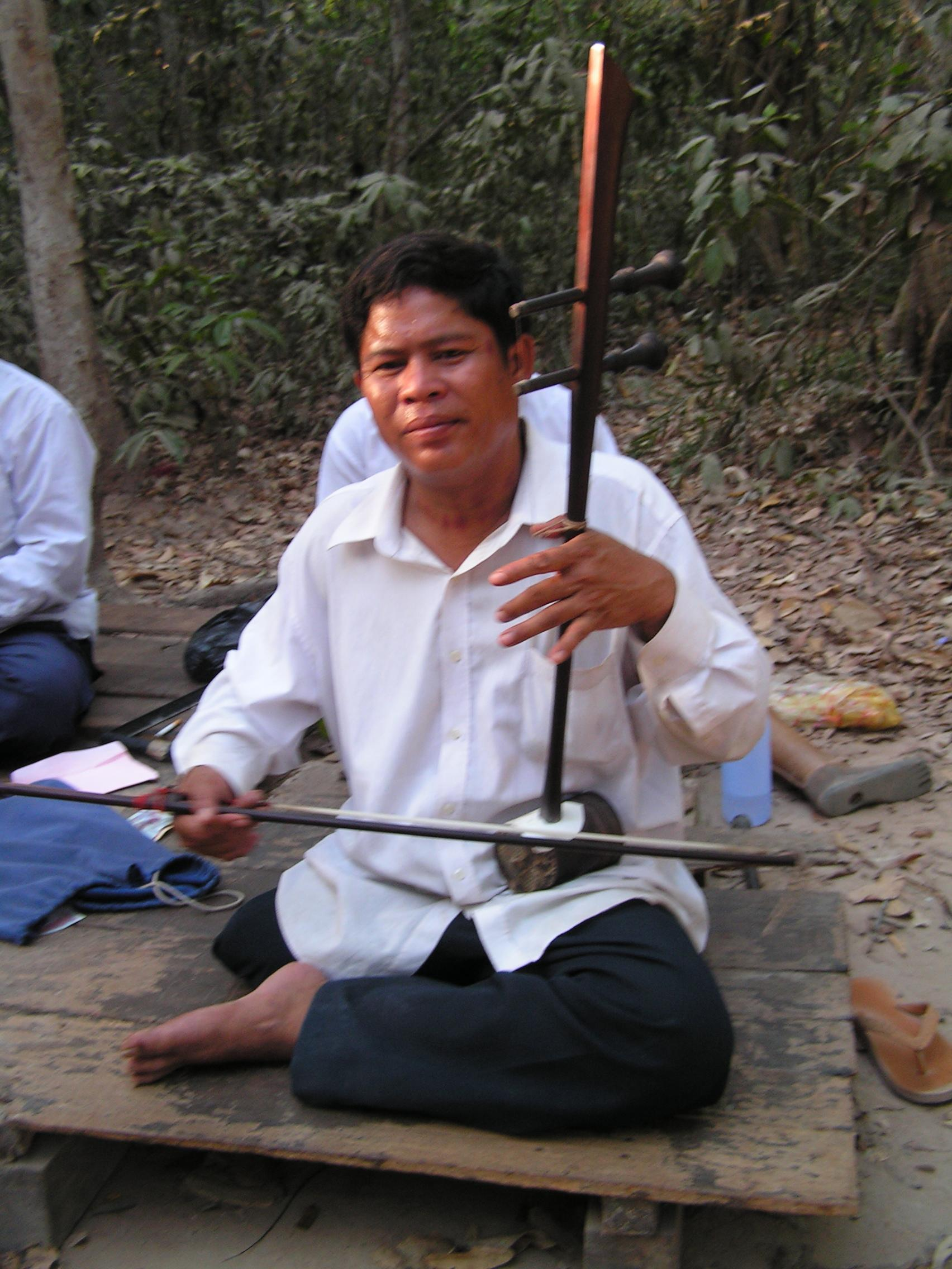 Land mine victim playing a traditional instrument (Siem Reap, close to one of the Angkor sites)Music